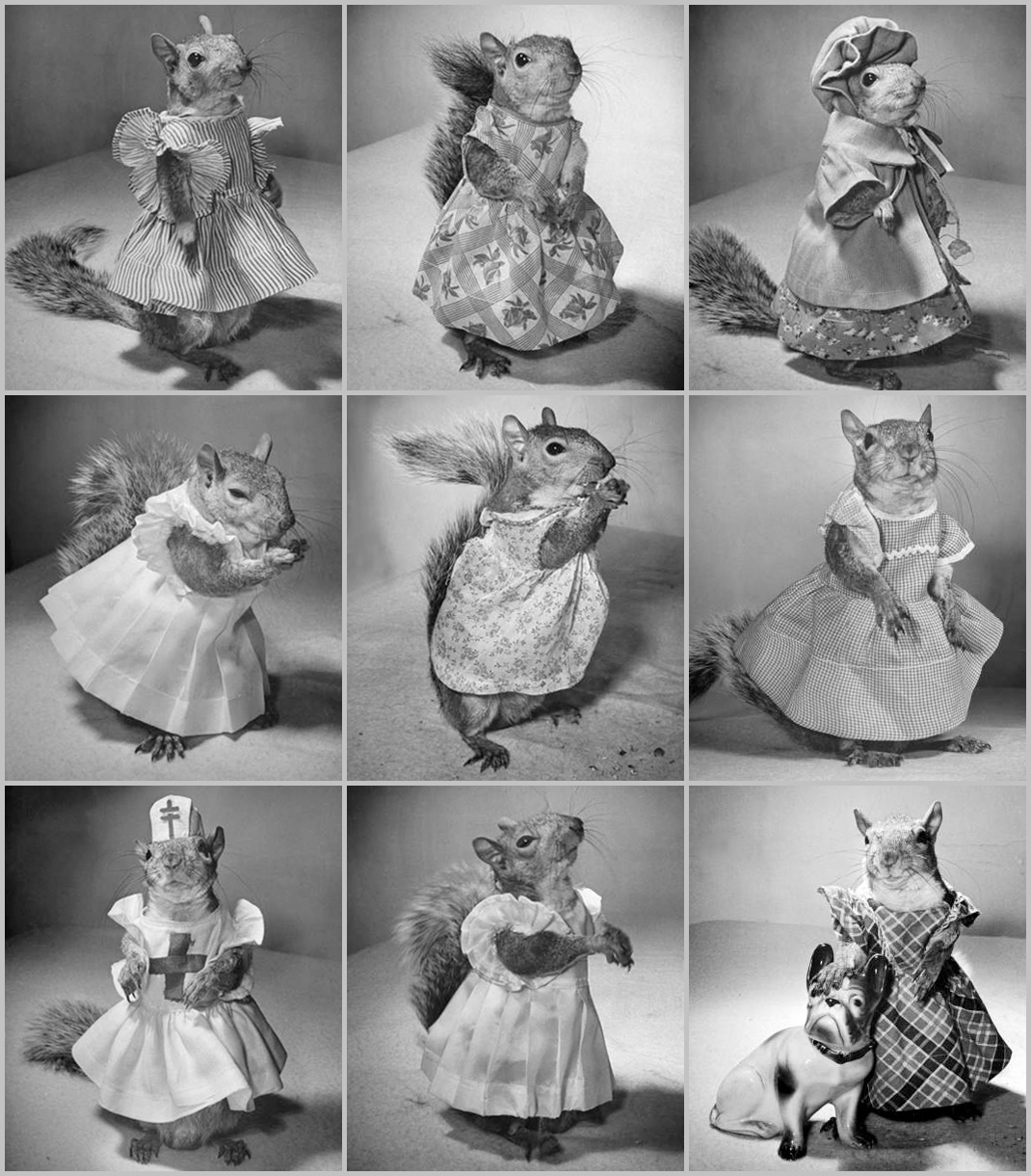 Photographs of Tommy Tucker, a tame Eastern gray squirrel living in Washington, D.C., a rodent renowned for entertaining children, visiting hospitals and supporting the war effort by selling war bonds.